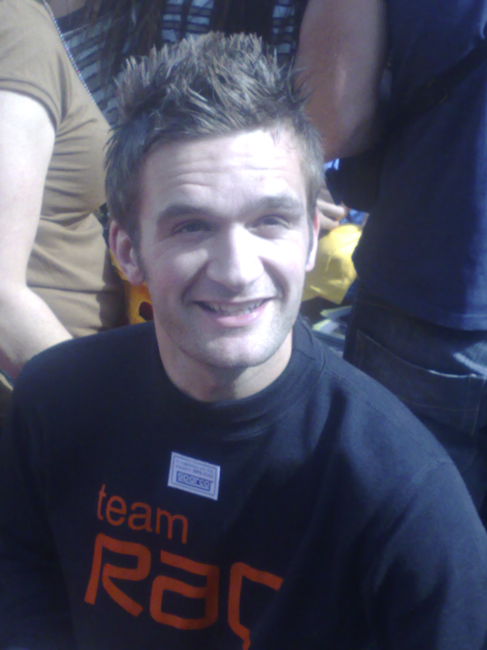 Colin Turkington at the 2009 Dunlop British Touring Car Festival in Edinburgh.